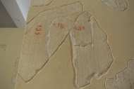 stones 28,29,30,32,33,34,35